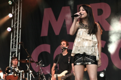 Miranda Cosgrove at Universal Studios